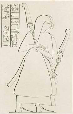 Viceroy of Kush Amenemipet at Beit el Wali